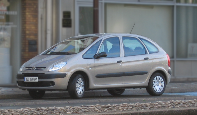 Citroën PicassoPersonal picture